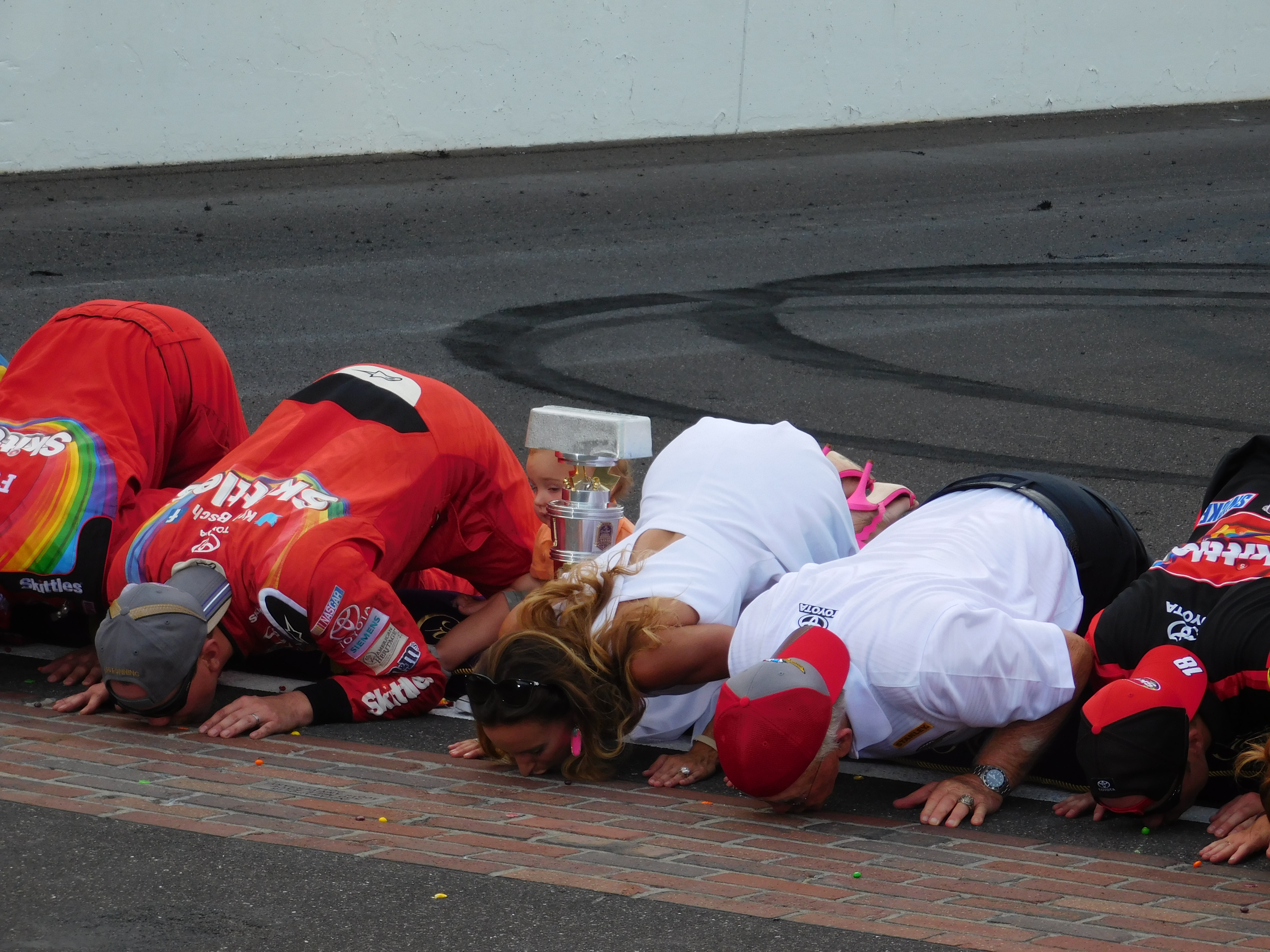 Kyle Busch, his family and crew members kiss the yard of bricks after winning the 2016 Brickyard 400.